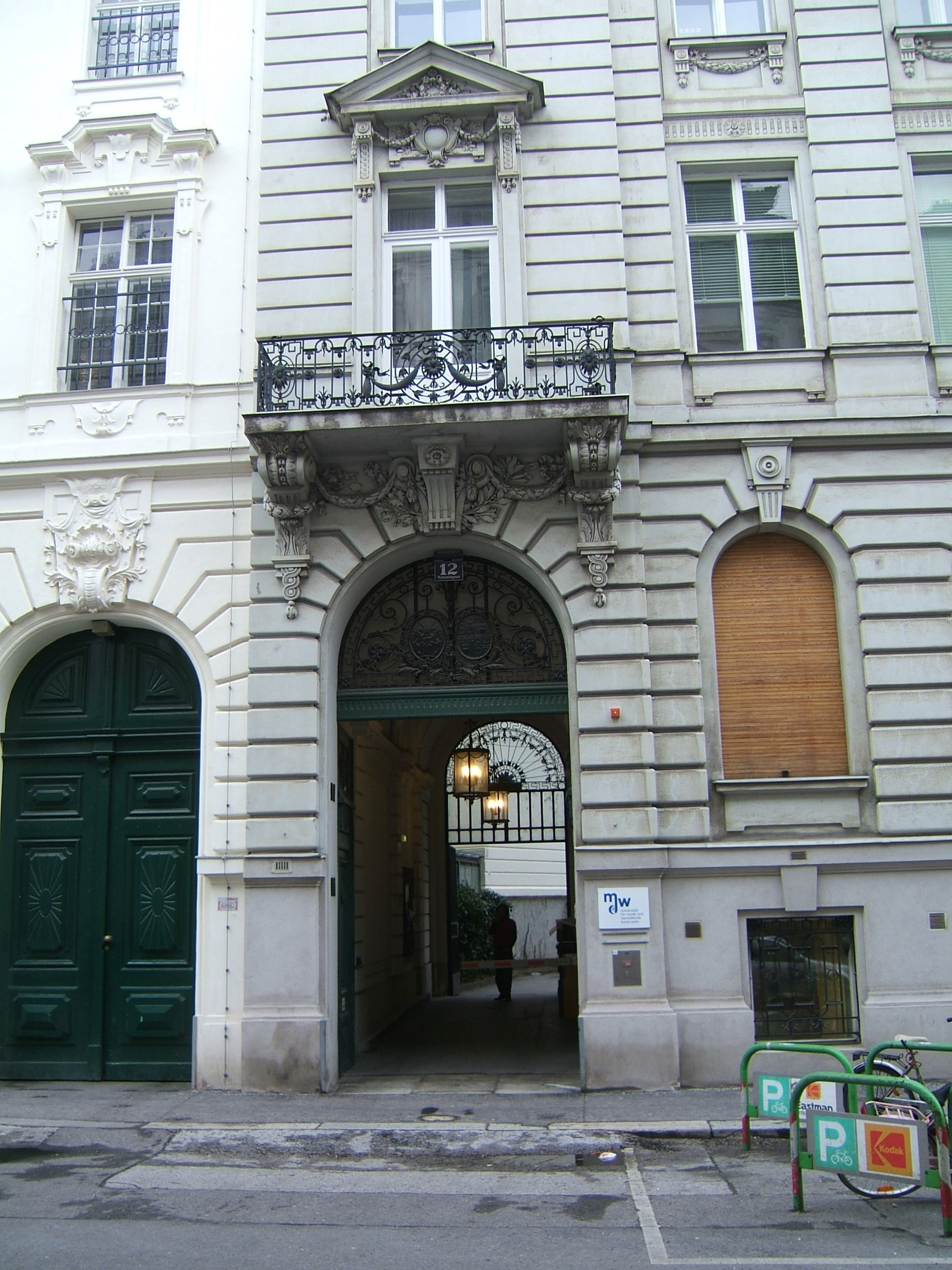 Portal of Bourgoing palace in Vienne 3rd district, Metternichgasse 12